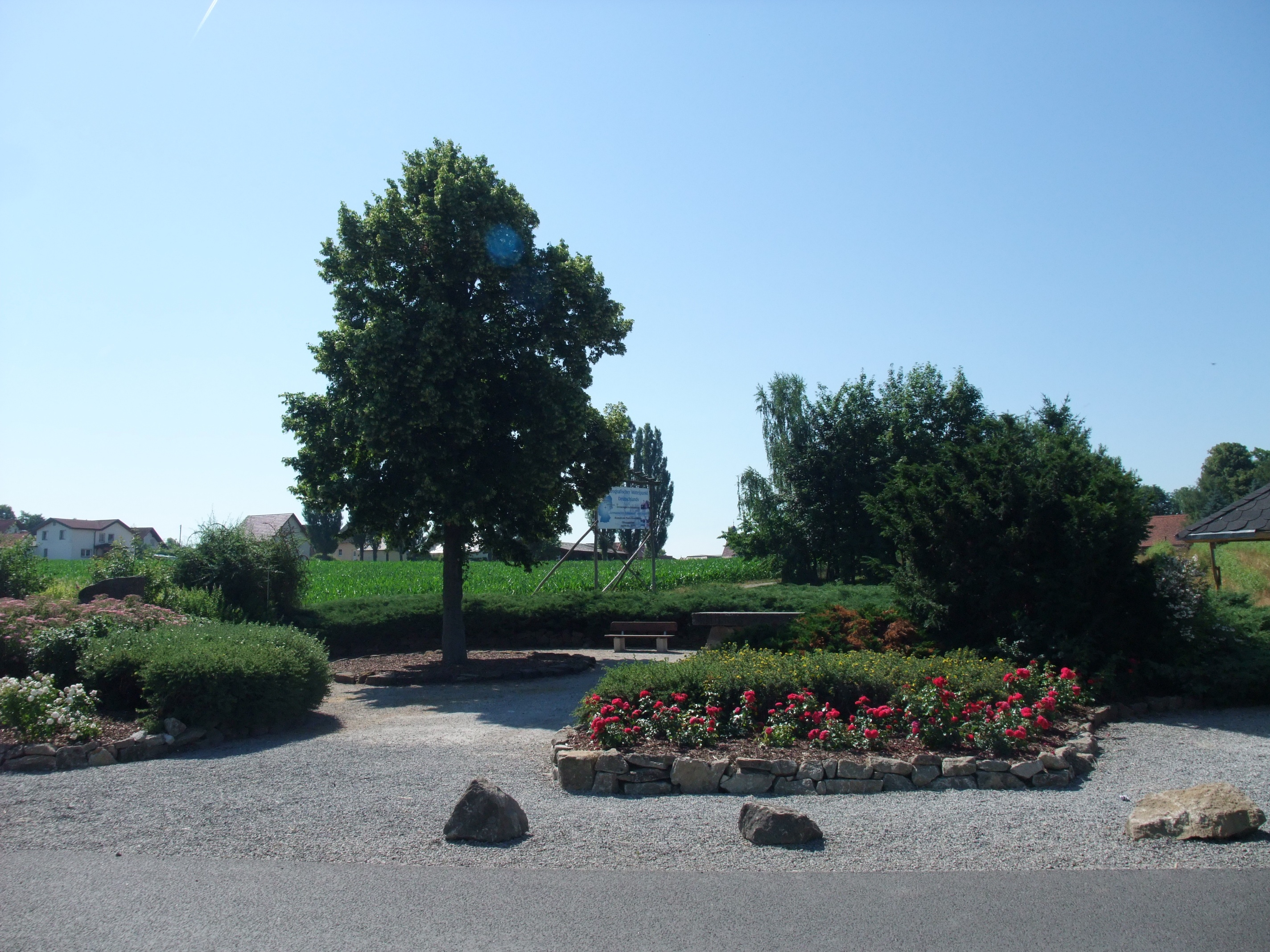 Geographical centre of Germany in Niederdorla, Germany.